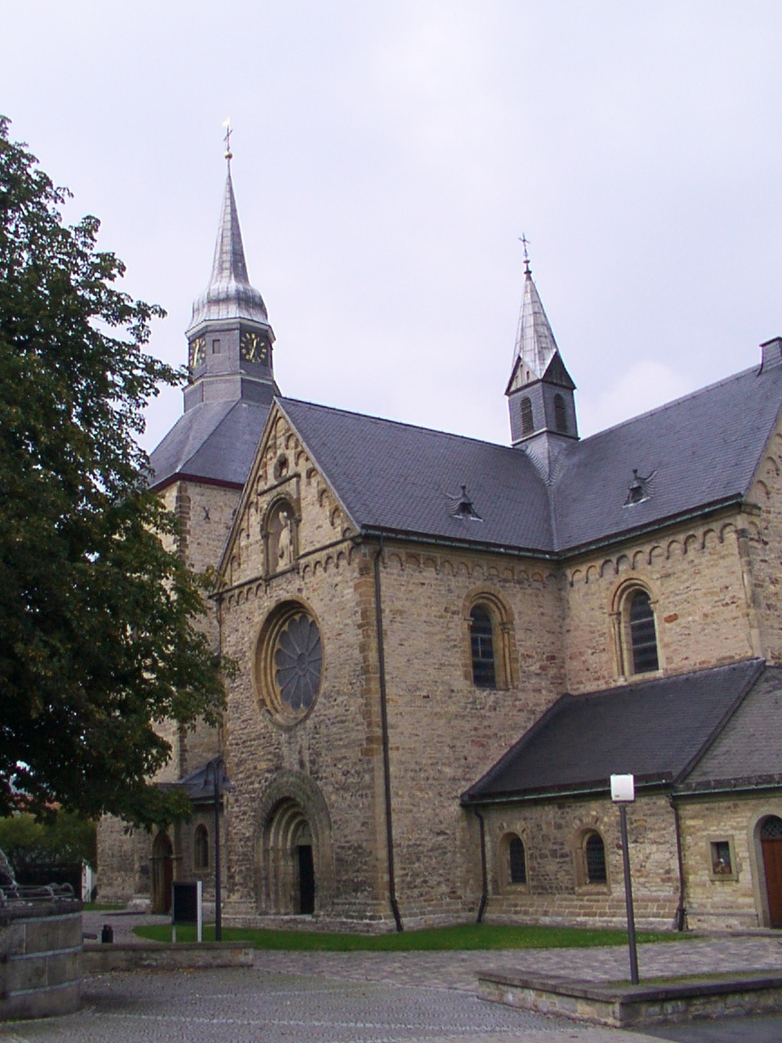 Büren (Westfalen): Catholic church Saint Nicholas